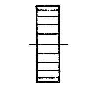 Sprocket Wheel